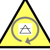 indoor pollution symbol